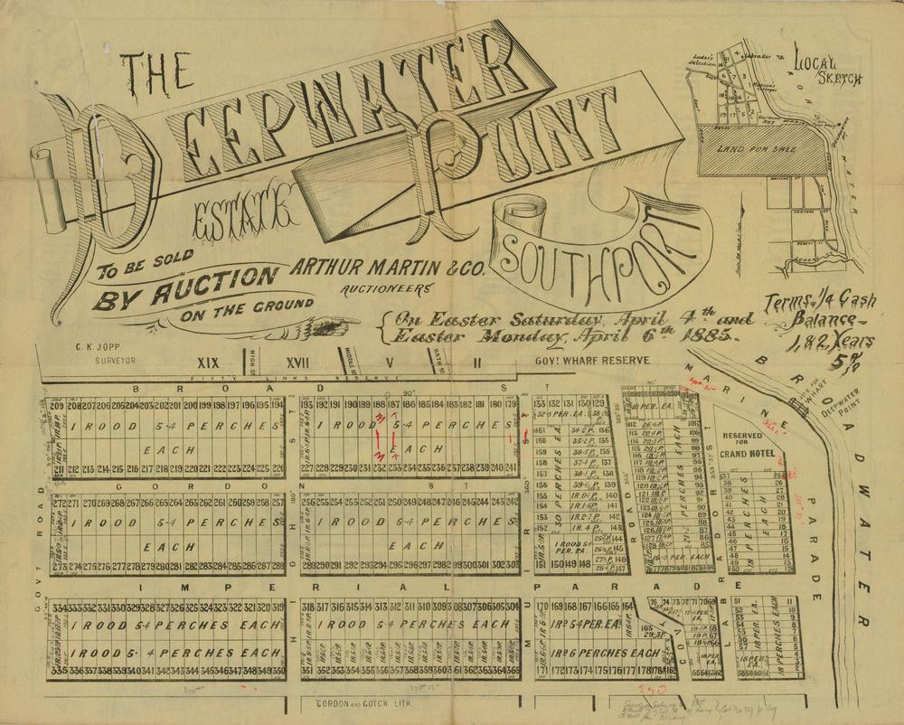 Estate map of Deepwater Point Estate, Southport, Queensland, 1885 Estate map showing allotments to be sold on 6 April 1885 by Arthur Martin & Co., auctioneers. The land was surveyed by G. K. Jopp. The plan includes a local sketch. The estate covered an area adjacent to Broad Street, Imperial Parade and Gordon Street.